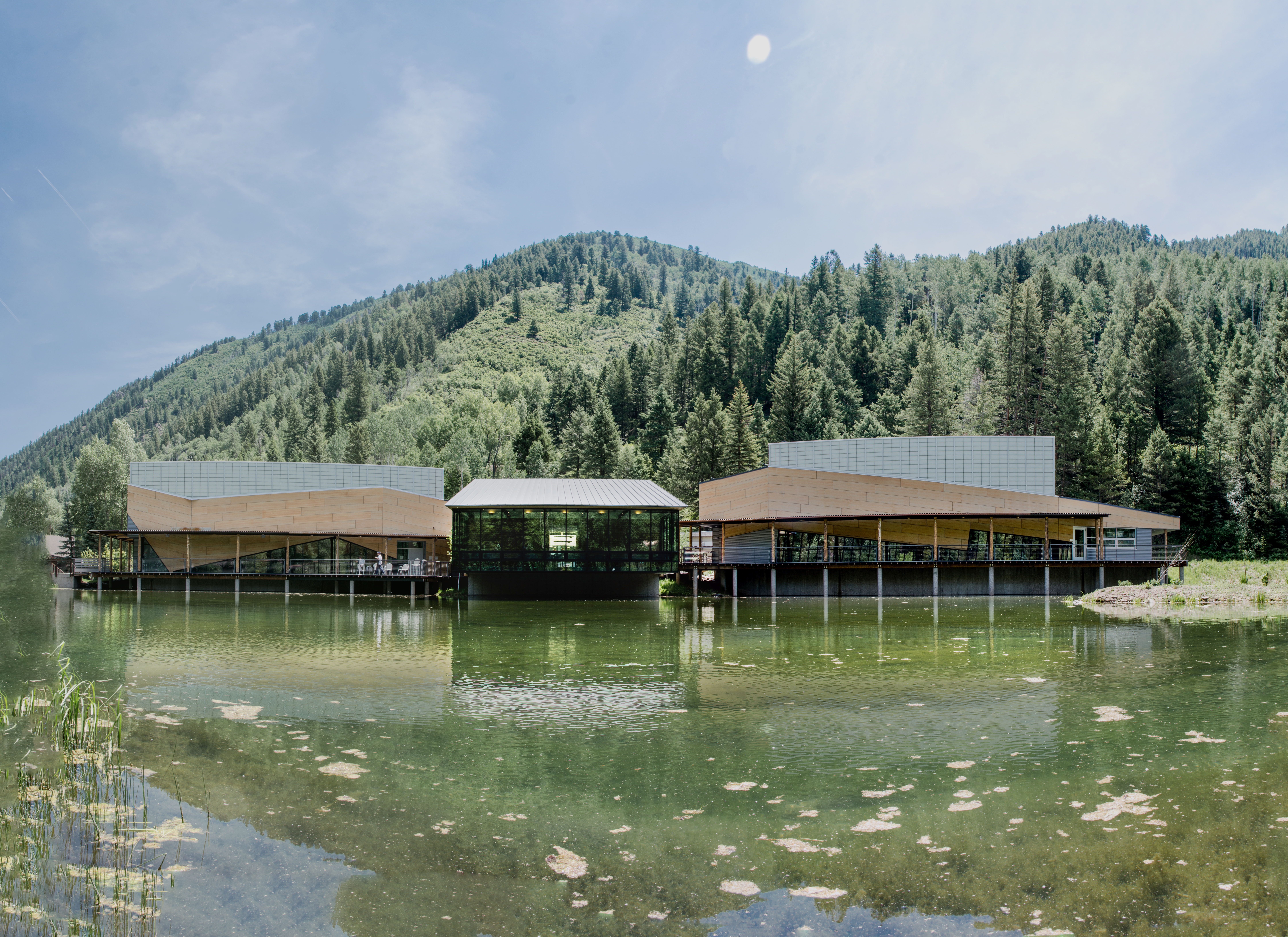 The Matthew and Carolyn Bucksbaum Campus, home to the Aspen Music Festival and School in Aspen, Colo.